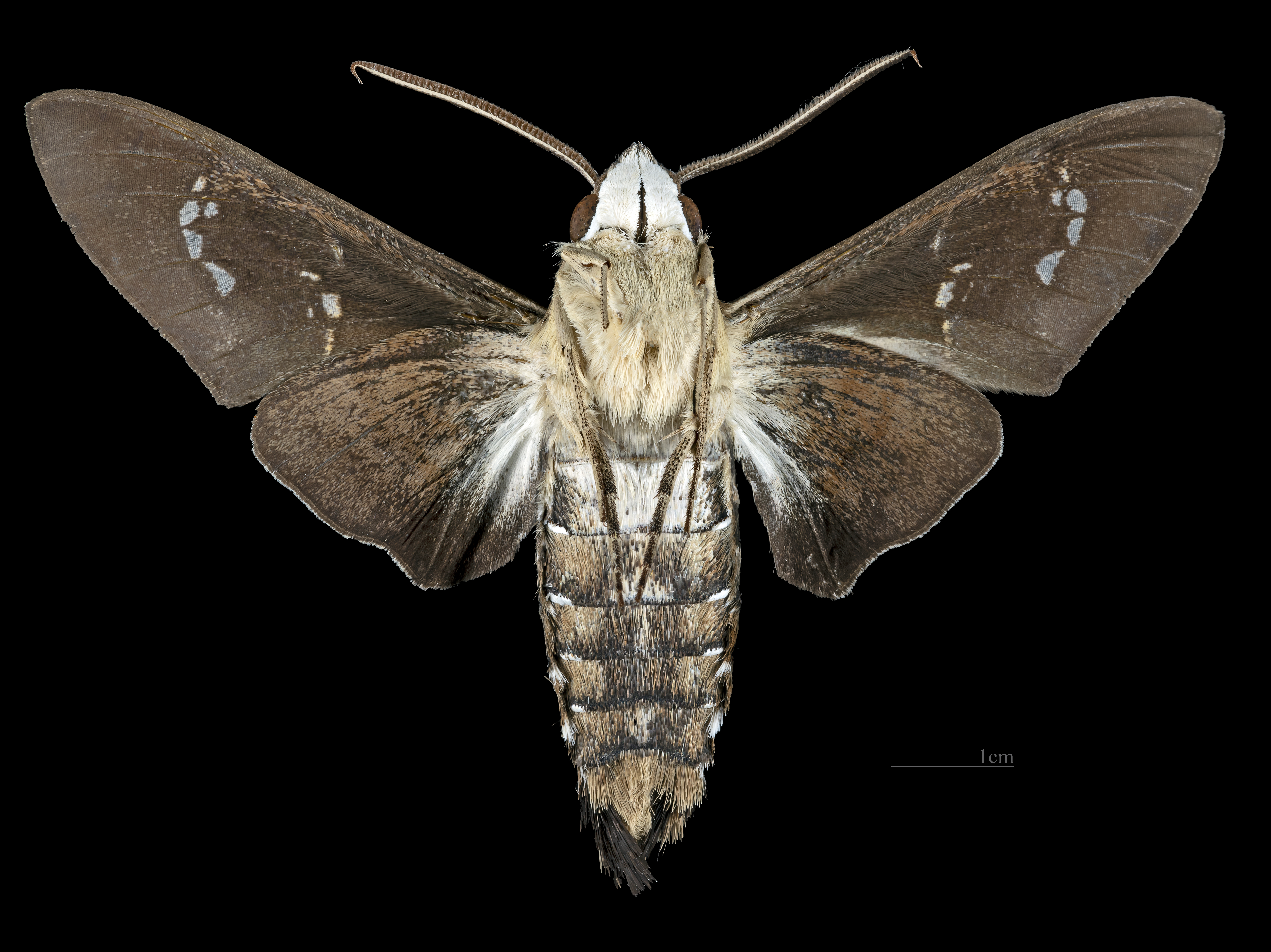 Aellopos clavipes - △ Ventral side Collection of the Mathematician Laurent Schwartz